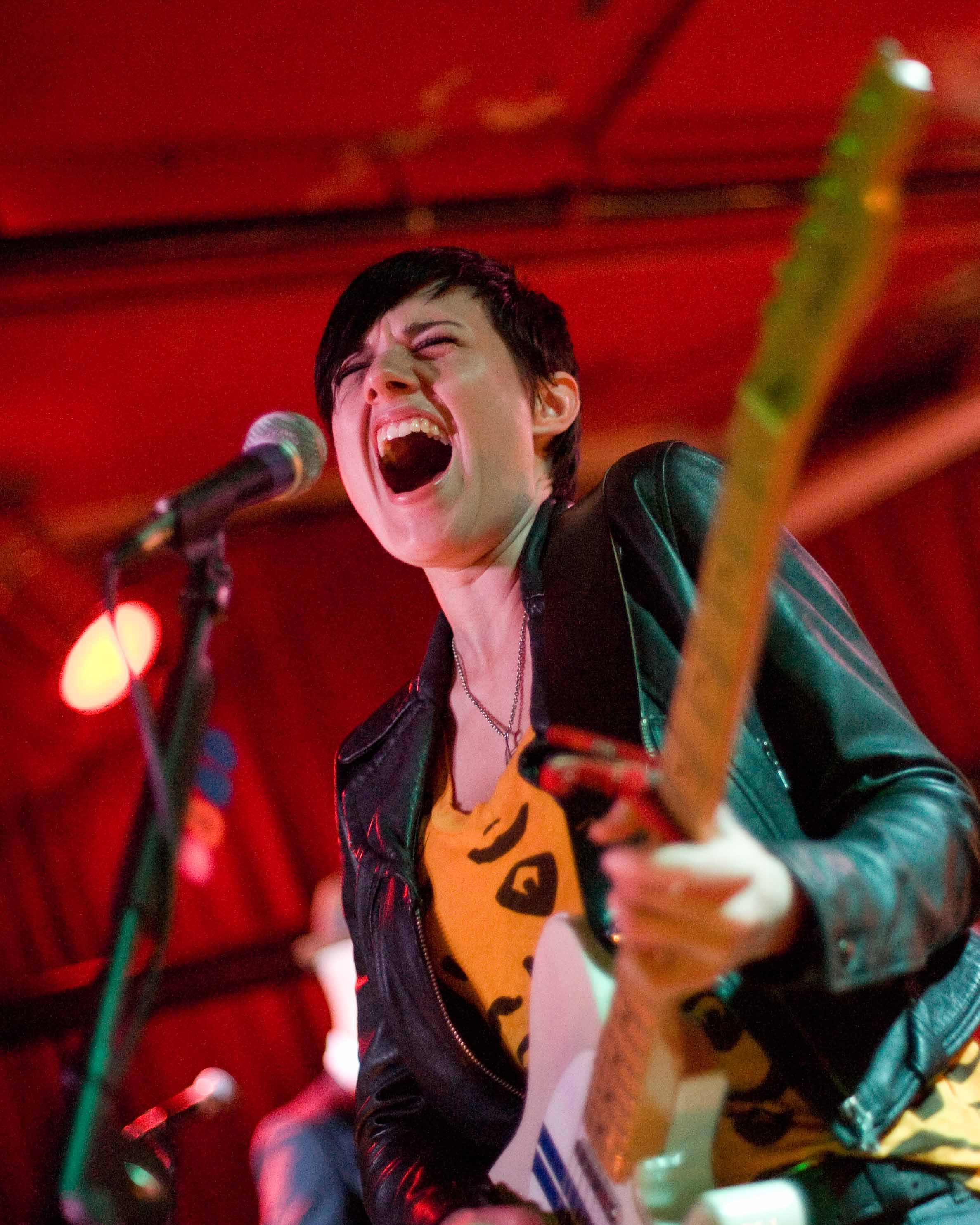 Butterfly Boucher ~ Ten Out Of Tenn at Chop Suey, Seattle, Washington 12-4-09